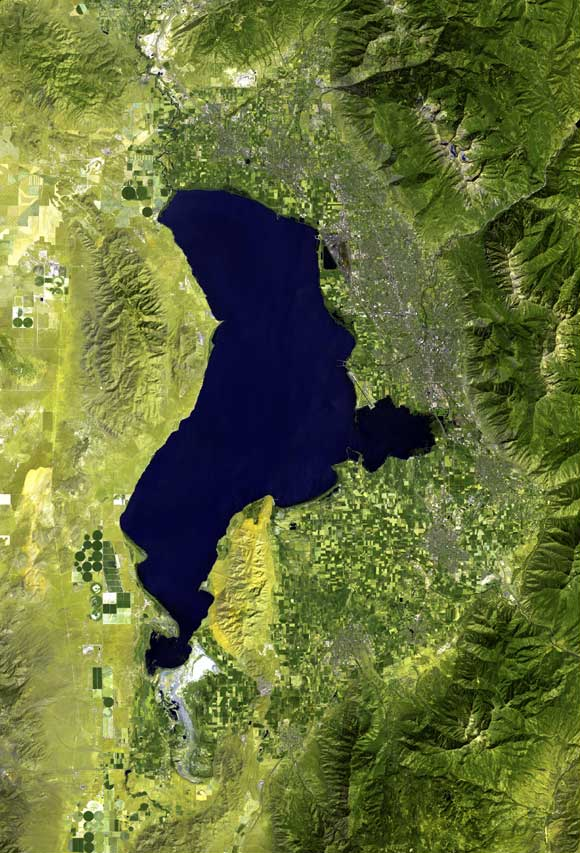 Satellite image of Utah Lake and Provo, Utah